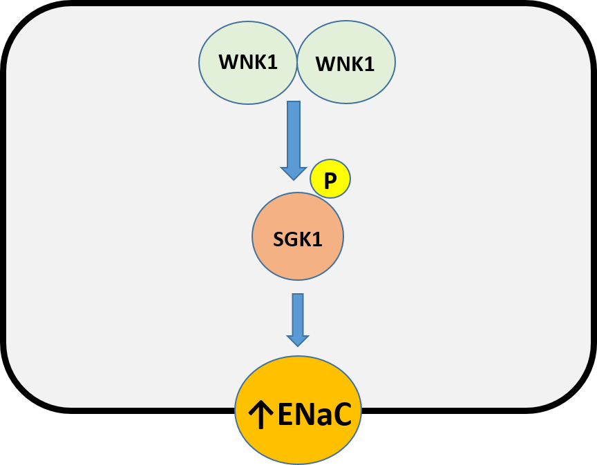 Proposed mechanism of WNK1 mediated activation of ENaC.